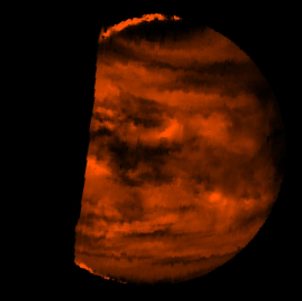 This false-color image is a near-infrared map of lower-level clouds on the night side of Venus, obtained by the Near Infrared Mapping Spectrometer aboard the Galileo spacecraft as it approached the planet's night side on February 10, 1990. Bright slivers of sunlit high clouds are visible above and below the dark, glowing hemisphere. The spacecraft is about 100,000 kilometers (60,000 miles) above the planet. An infrared wavelength of 2.3 microns (about three times the longest wavelength visible to the human eye) was used. The map shows the turbulent, cloudy middle atmosphere some 50-55 kilometers (30- 33 miles) above the surface, 10-16 kilometers or 6-10 miles below the visible cloudtops. The red color represents the radiant heat from the lower atmosphere (about 400 degrees Fahrenheit) shining through the sulfuric acid clouds, which appear as much as 10 times darker than the bright gaps between clouds. This cloud layer is at about -30 degrees Fahrenheit, at a pressure about 1/2 Earth's surface atmospheric pressure. Near the equator, the clouds appear fluffy and blocky; farther north, they are stretched out into East-West filaments by winds estimated at more than 150 mph, while the poles are capped by thick clouds at this altitude.